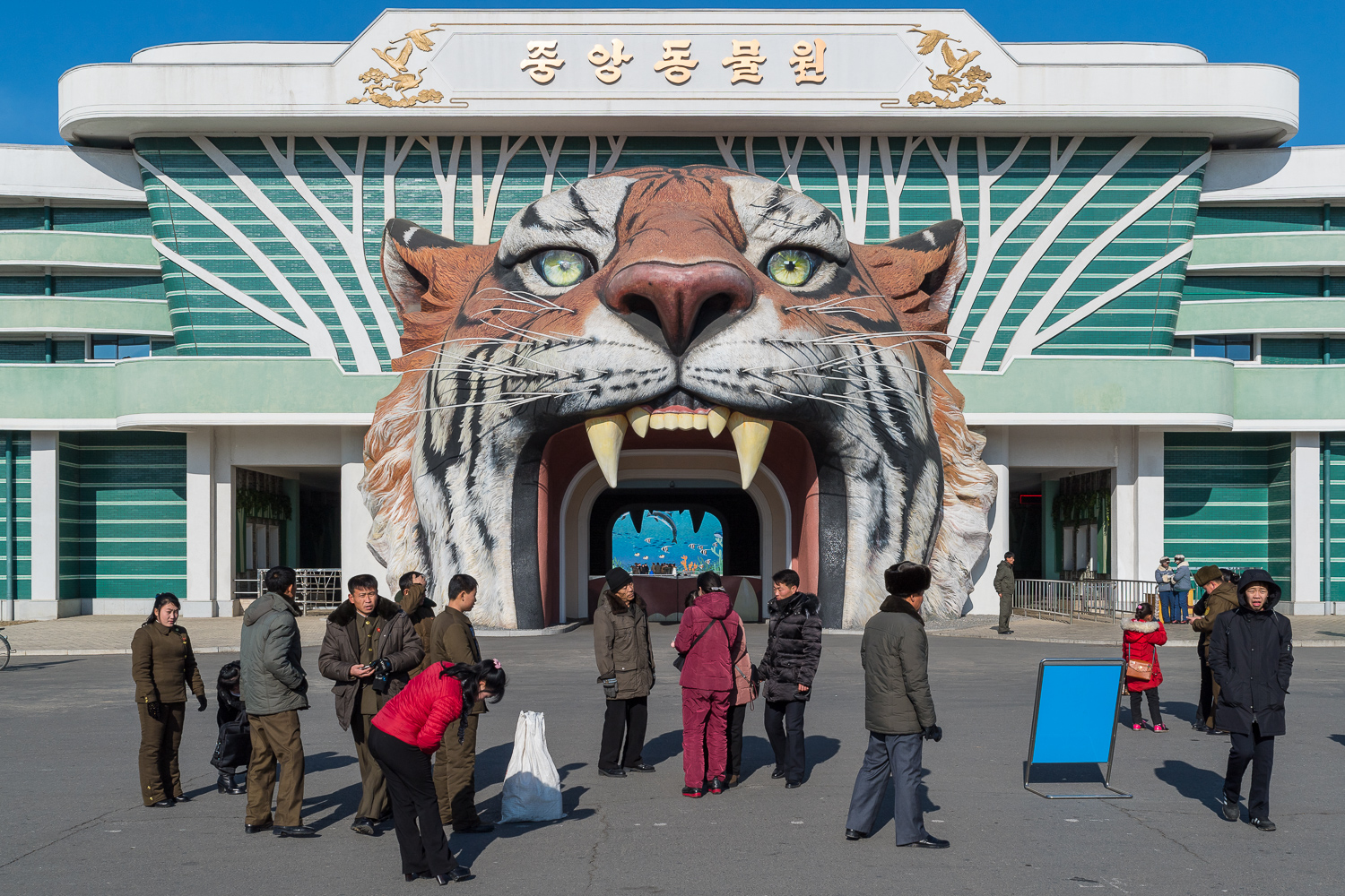 Entrance in the shape of a Tigers head to the Korea Central Zoo in Pyongyang, the capital of the Democratic People's Republic of Korea (North Korea)